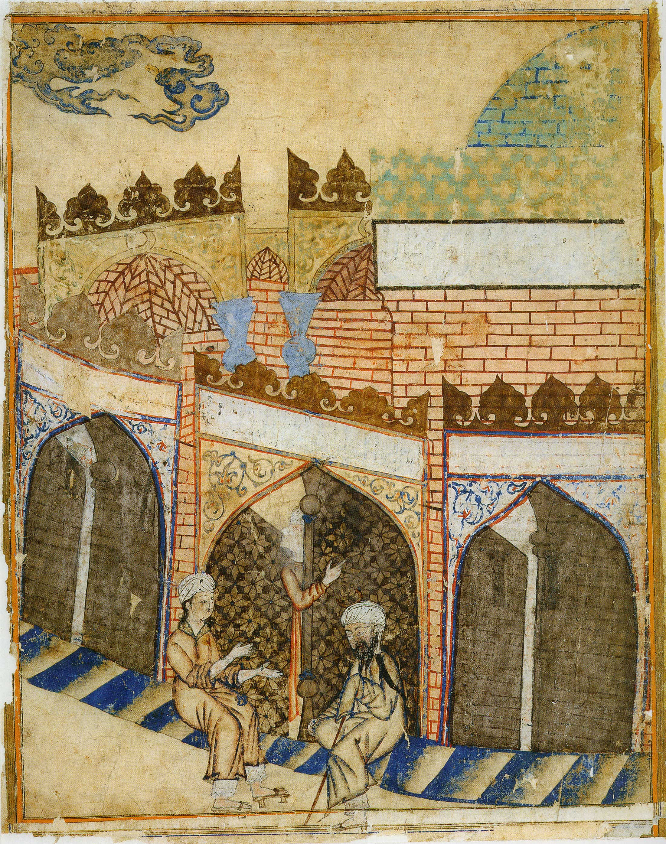 Ghazan Khan's mausoleum and foundation. Illustration of Rashid-ad-Din's Gami' at-tawarih. Tabriz (?), 1st quarter of 14th century. Water colours (and silver?) on paper. Original size: 36.2 cm x 29 cm. Staatsbibliothek Berlin, Orientabteilung, Diez A fol. 70, p. 13.